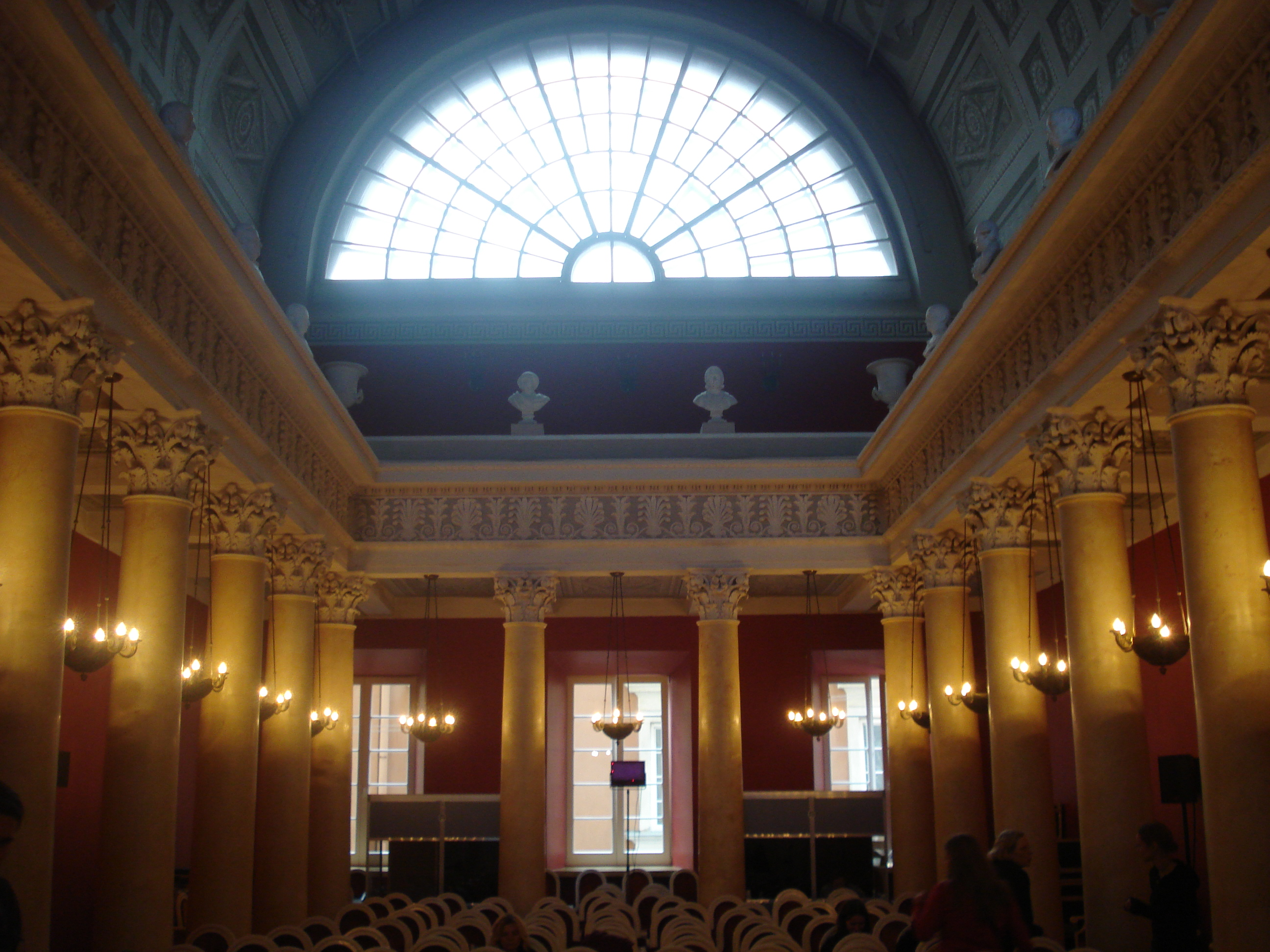 Aula Kolumnowa Uniwersytetu Stefana Batorego (main building of Vilnius University)